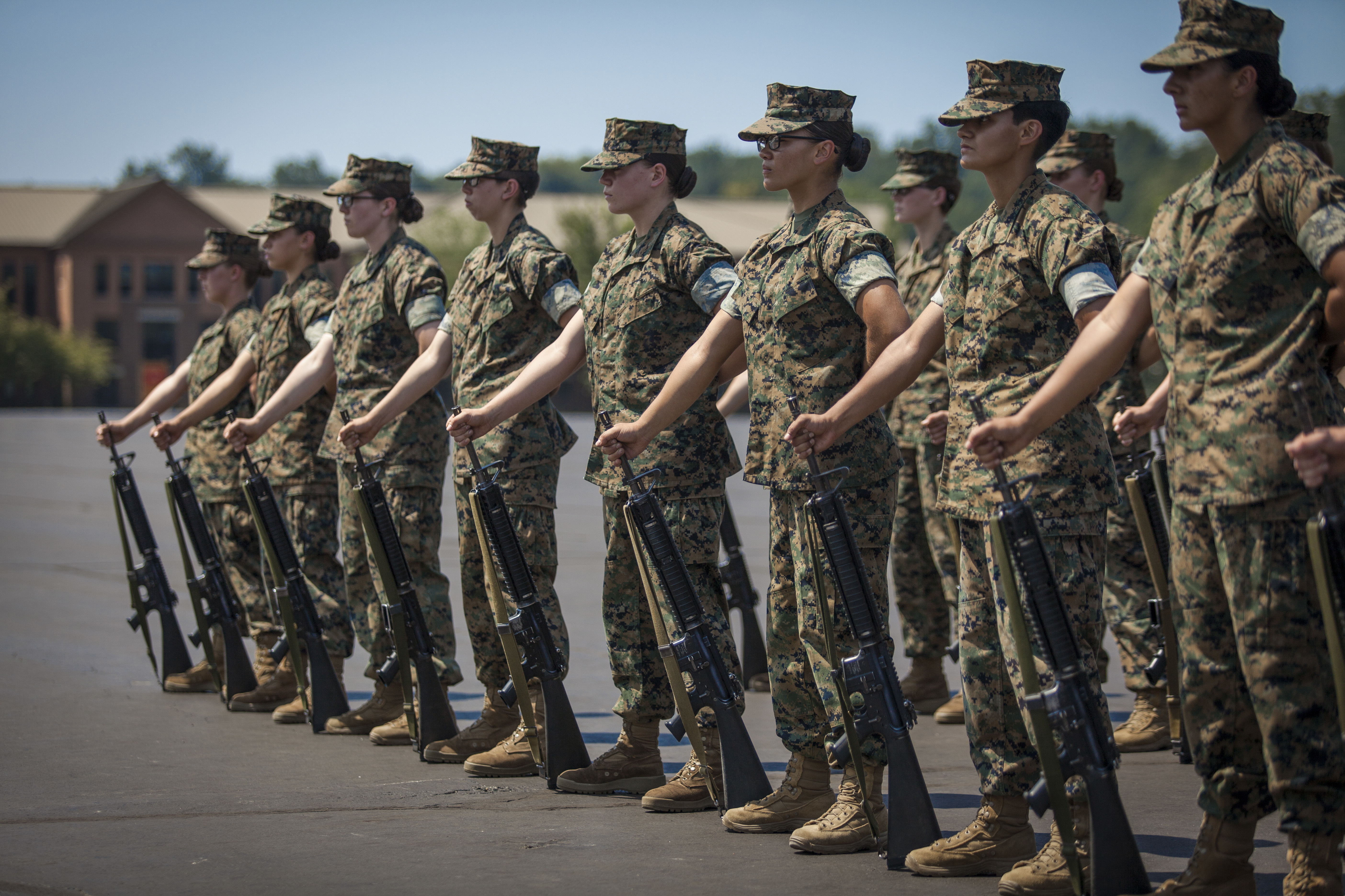 Officer Candidates conduct close order drill at Marine Corps Officer Candidates School aboard Marine Corps Base Quantico, Virginia, August 7, 2019. Close order drill instills discipline by increasing precision, response to orders and confidence in the candidates. The mission of Officer Candidates School is to educate and train officer candidates in Marine Corps knowledge and skills within a controlled and challenging environment in order to evaluate and screen individuals for the leadership, moral and physical qualities required for commissioning as a Marine Officer. (U.S. Marine Corps photo by Lance Cpl. Phuchung Nguyen)